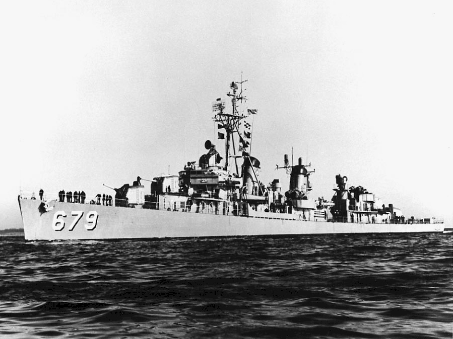 The U.S. Navy destroyer USS McNair (DD-679) underway while entering or leaving port, circa the later 1950s or early 1960s.